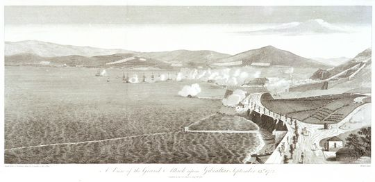 A View of the Grand Attack upon Gibraltar September 13th 1782